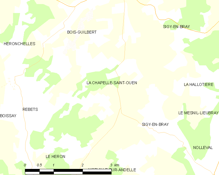 Map of French municipality La Chapelle-Saint-Ouen